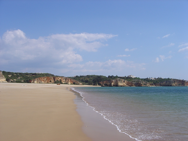 Beach of Praia Grande, Ferragudo, Lagoa, Algarve, Portugal